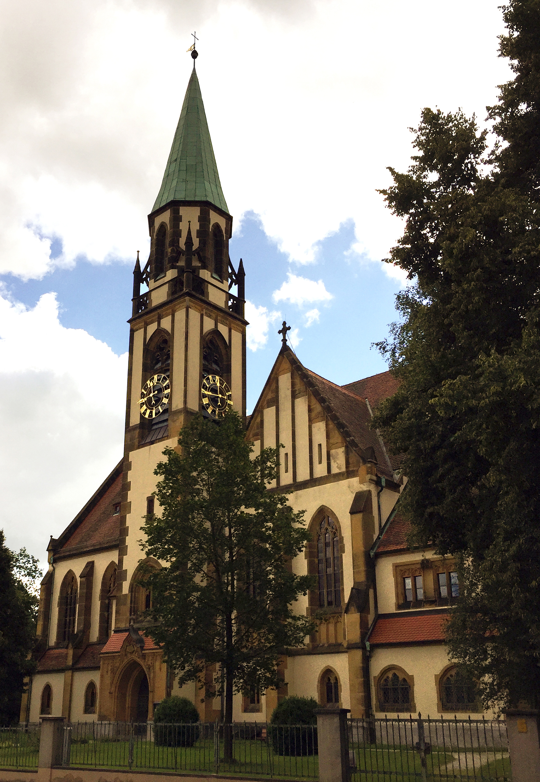 Fassade der 1914 eingeweihten evang.-luth. Pfarrkirche Heilig-Kreuz, Röthenbach an der Pegnitz. Nordwestansicht 2016